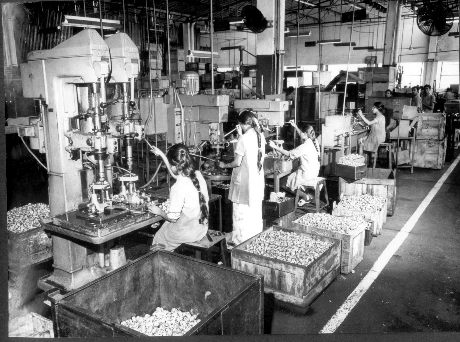 Gabriel Archive